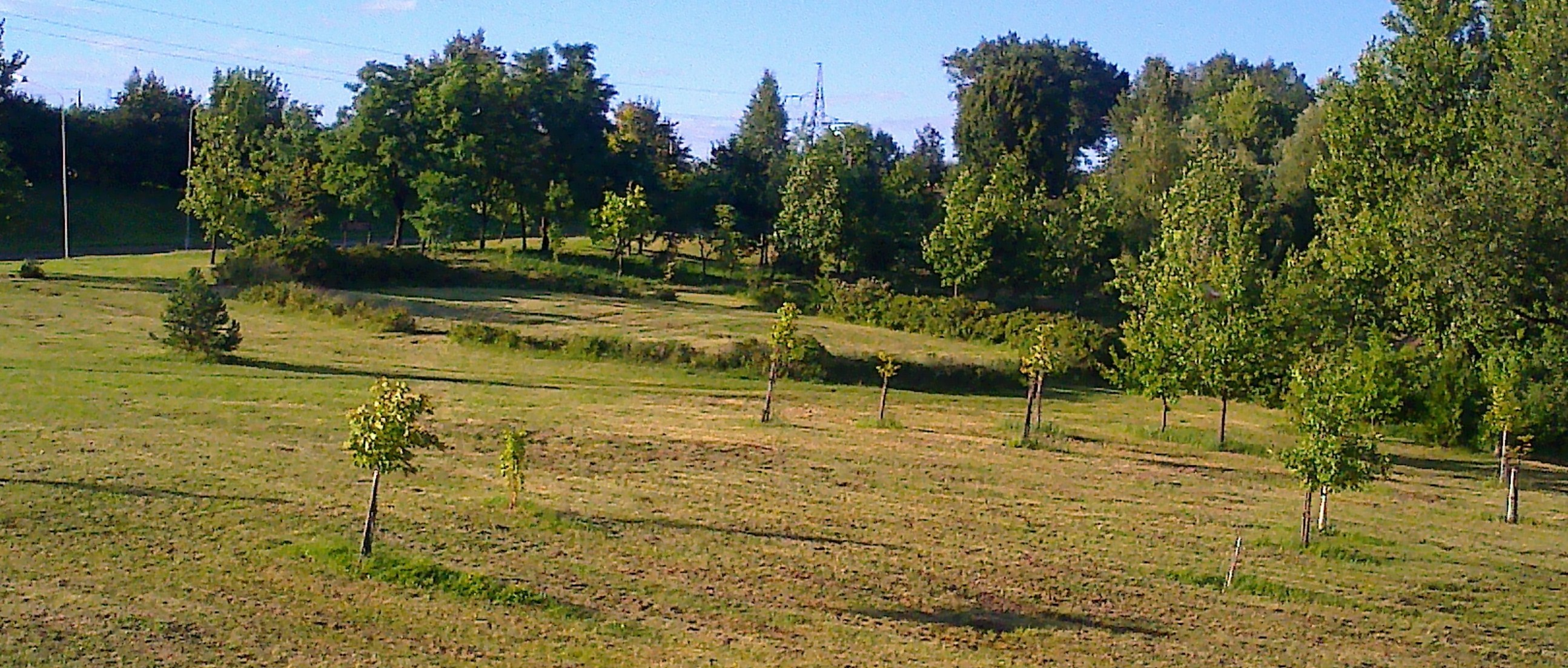 Atminimo parko panorama, Jonava